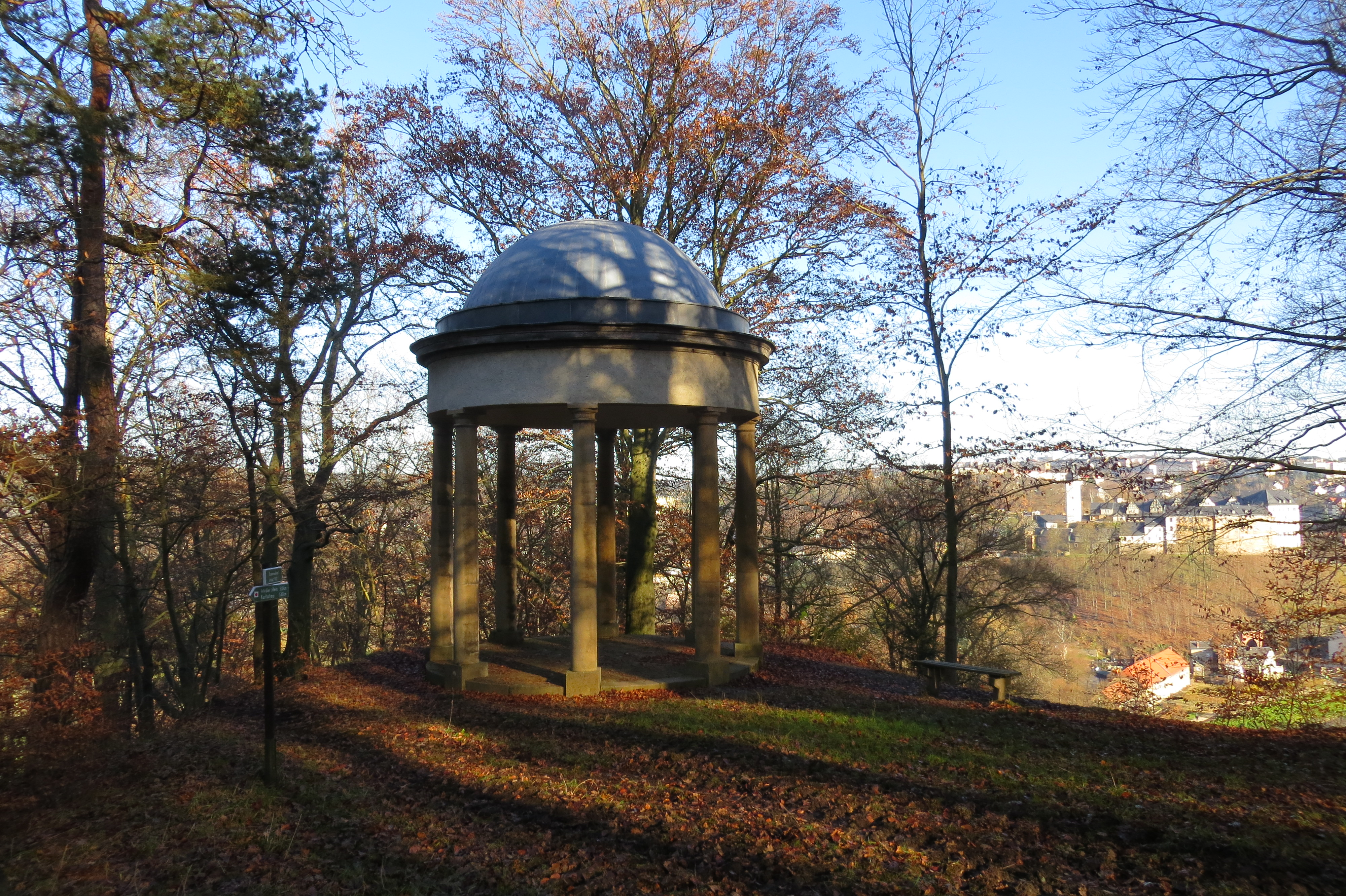 Gasparinentempel in Greiz